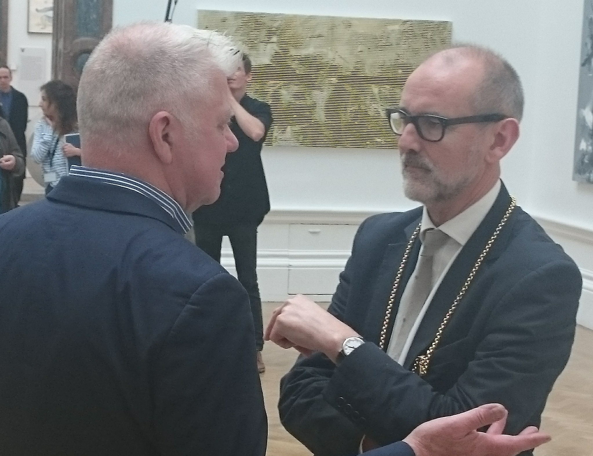 Christopher Le Brun, president of the Royal Academy of Arts, talking to the artist Keith Milow at the artists' opening ("varnishing day") of the RA Summer Exhibition 2015. In the background Milow's painting First and Last (2014).